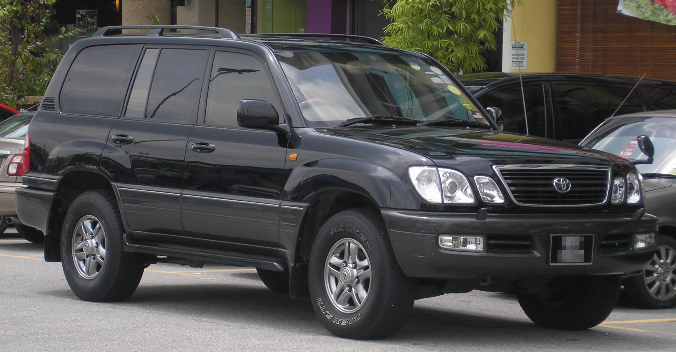 Front-side shot of a Toyota Land Cruiser 100 Cygnus (eighth generation), in Serdang, Selangor, Malaysia.